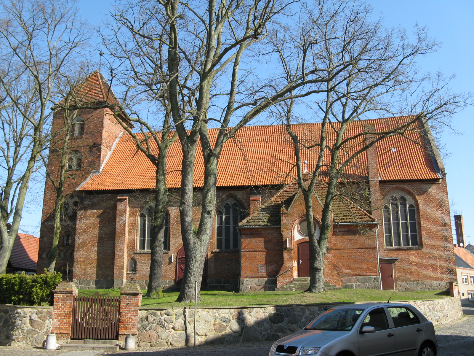 Church in Lübz, district Ludwigslust-Parchim, Mecklenburg-Vorpommern, Germany